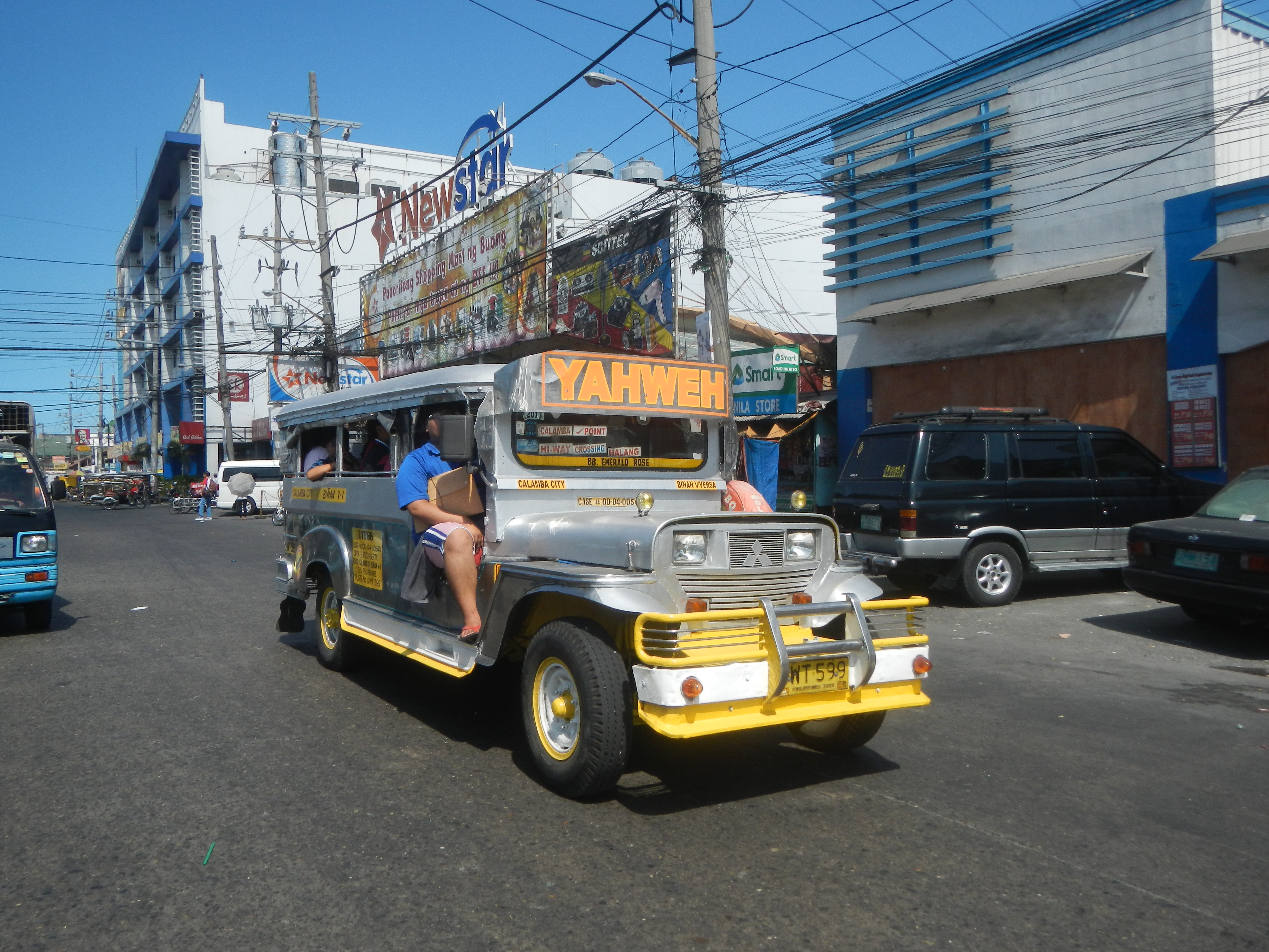 CNG Transport, Inc. Unitop Sta. Rosa Super8 Grocery Warehouse Newstar (Balibago, Santa Rosa, Laguna) Target Mall (Balibago, Santa Rosa, Laguna) Santa Rosa Commercial Complex (Balibago, Santa Rosa, Laguna); Santa Rosa Complex Central Terminal (Balibago, Santa Rosa, Laguna) Puregold Santa Rosa Jac Liner 1st_District List of barangays in Laguna (province) Barangays Balibago 14°17'26"N 121°6'16"E Santa Rosa Commercial Complex Dila 14°17'19"N 121°6'41"E 14°17'34"N 121°6'14"E Labas 14°18'28"N 121°6'37"E Pooc 14°17'51"N 121°6'51"E Malusak (Poblacion Dos) 14°18'44"N 121°6'49"E Tagapo 14°19'5"N 121°6'4"E Market Area (Poblacion Tres) 14°19'1"N 121°6'54"E Santa Rosa, Laguna (Note: Judge Florentino Floro, the owner, to repeat, Donor Florentino Floro of all these photos hereby donate gratuitously, freely and unconditionally Judge Floro all these photos to and for Wikimedia Commons, exclusively, for public use of the public domain, and again without any condition whatsoever).